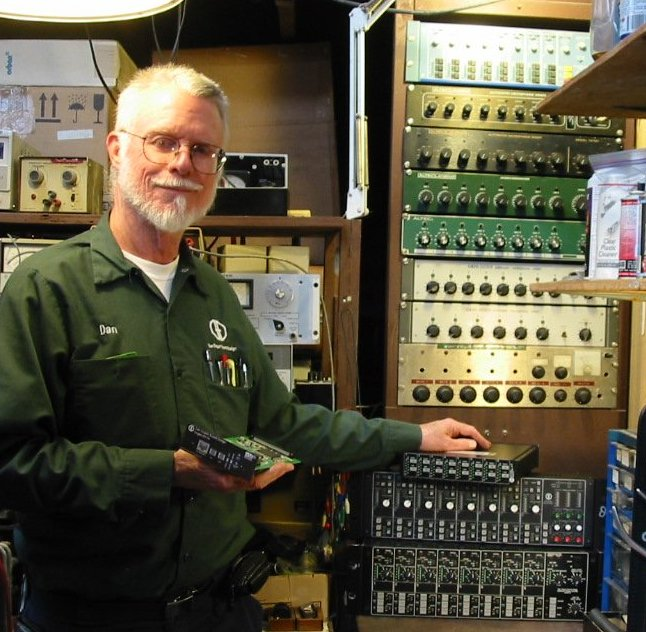 Dan Dugan standing near 37 years of his automixers. In his right hand, Dugan holds his Yamaha Dugan-MY16 card (2011) and to his left side are many of the previous models he produced or licensed. On top of the rear rack is the light blue prototype of the Model D from the late 1980s. Descending in the rack: the Altec 1684A, the Altec 1678C, 1678B, 1678A, two white faceplate Dugan Model As (8- and 6-channel units), and with red labels on bare steel, the 1974 prototype of the Dugan Music System. Under Dugan's left hand is a Dugan Model E-1 (2008), below that a controller for the Dugan Models D-2 and D-3, and at the bottom is a Model D.